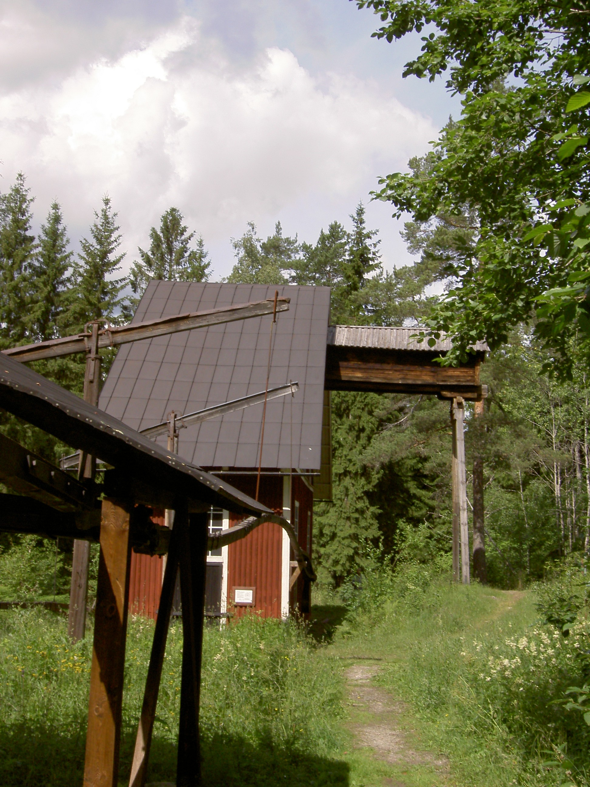 Polhemshjulet ("The wheel of Polhem"), Kärrgruvan, Sweden